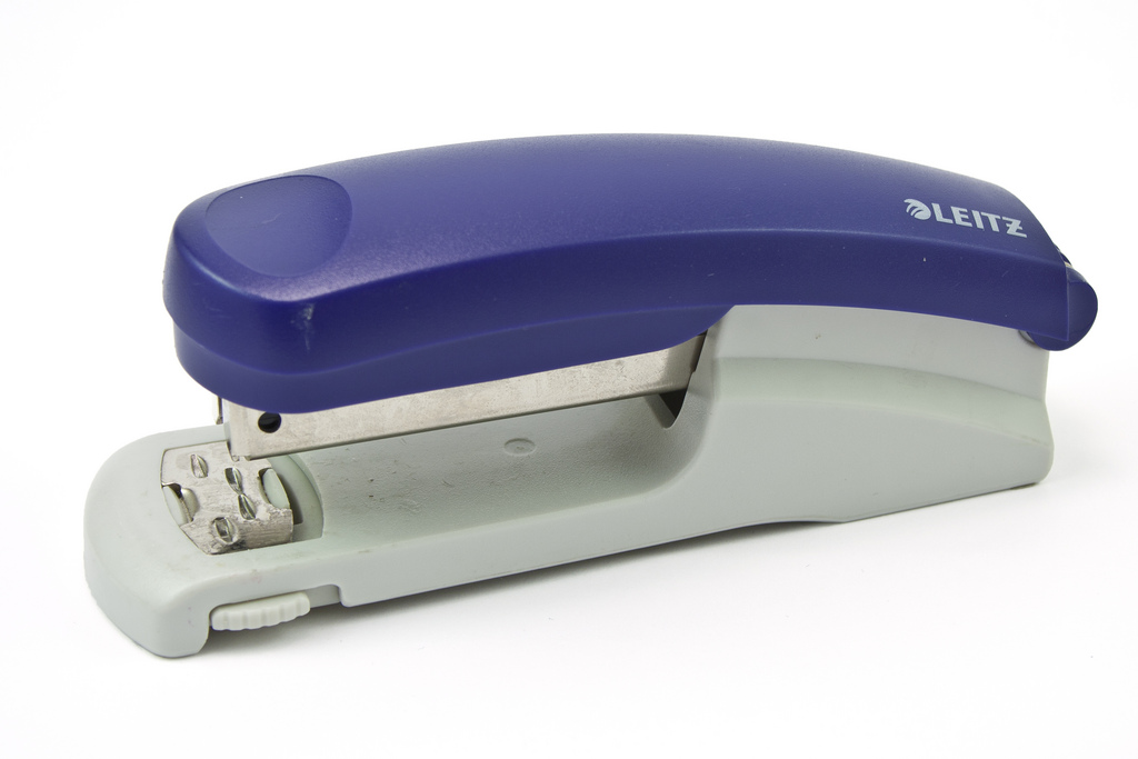 Leitz stapler